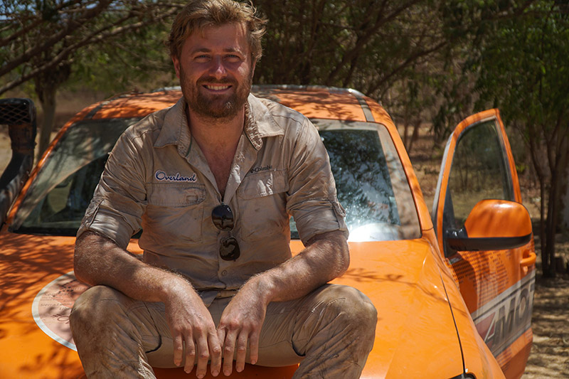 Filippo Tenti in Overland20